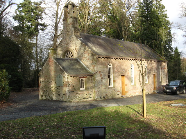 The parish church of Mertoun and Maxton Or Mertoun Kirk as it is better known. There has been a church on this spot since the 13th century.